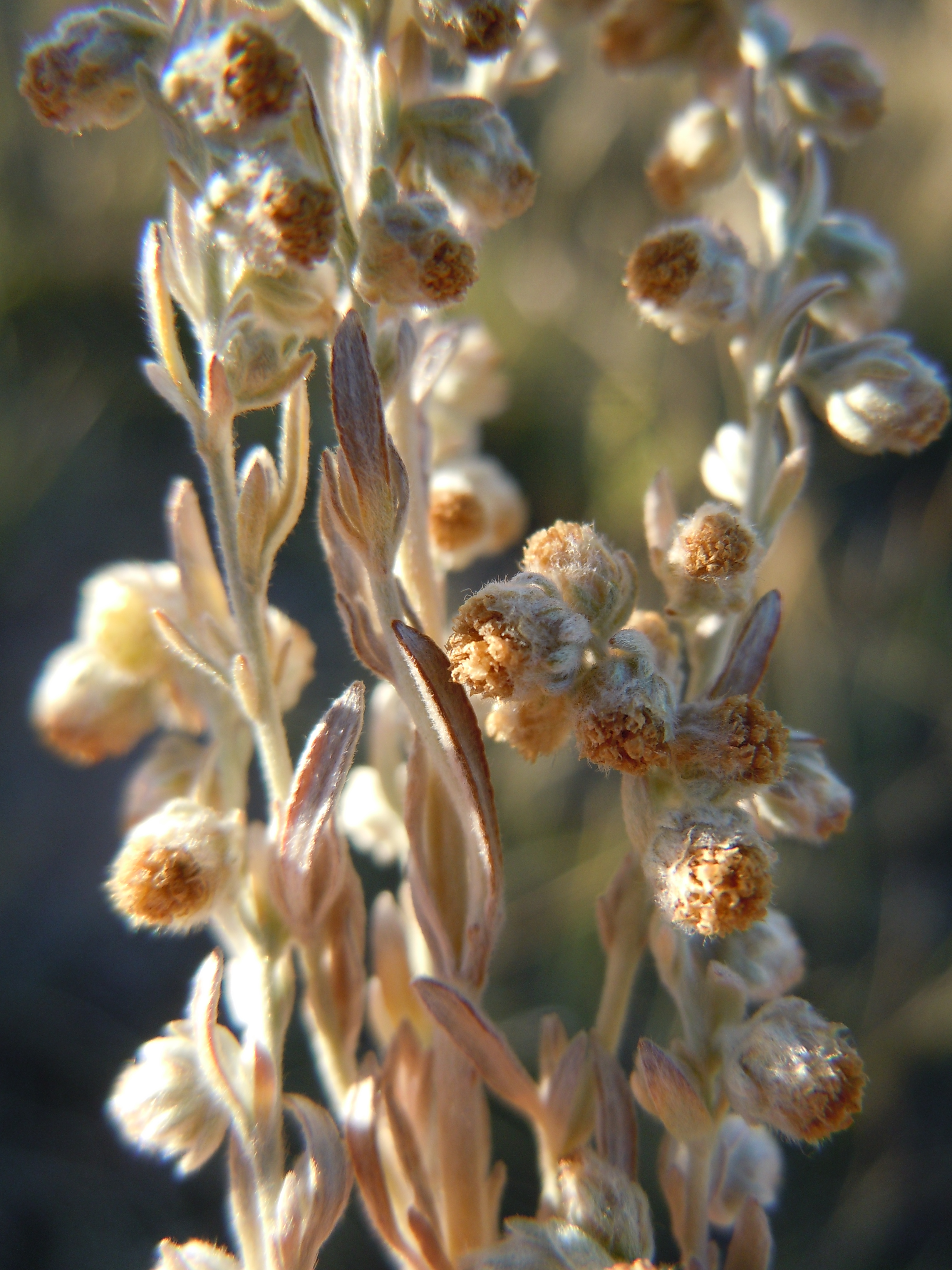 Individual flowering heads are usually nodding and mostly swept in the same downward direction.